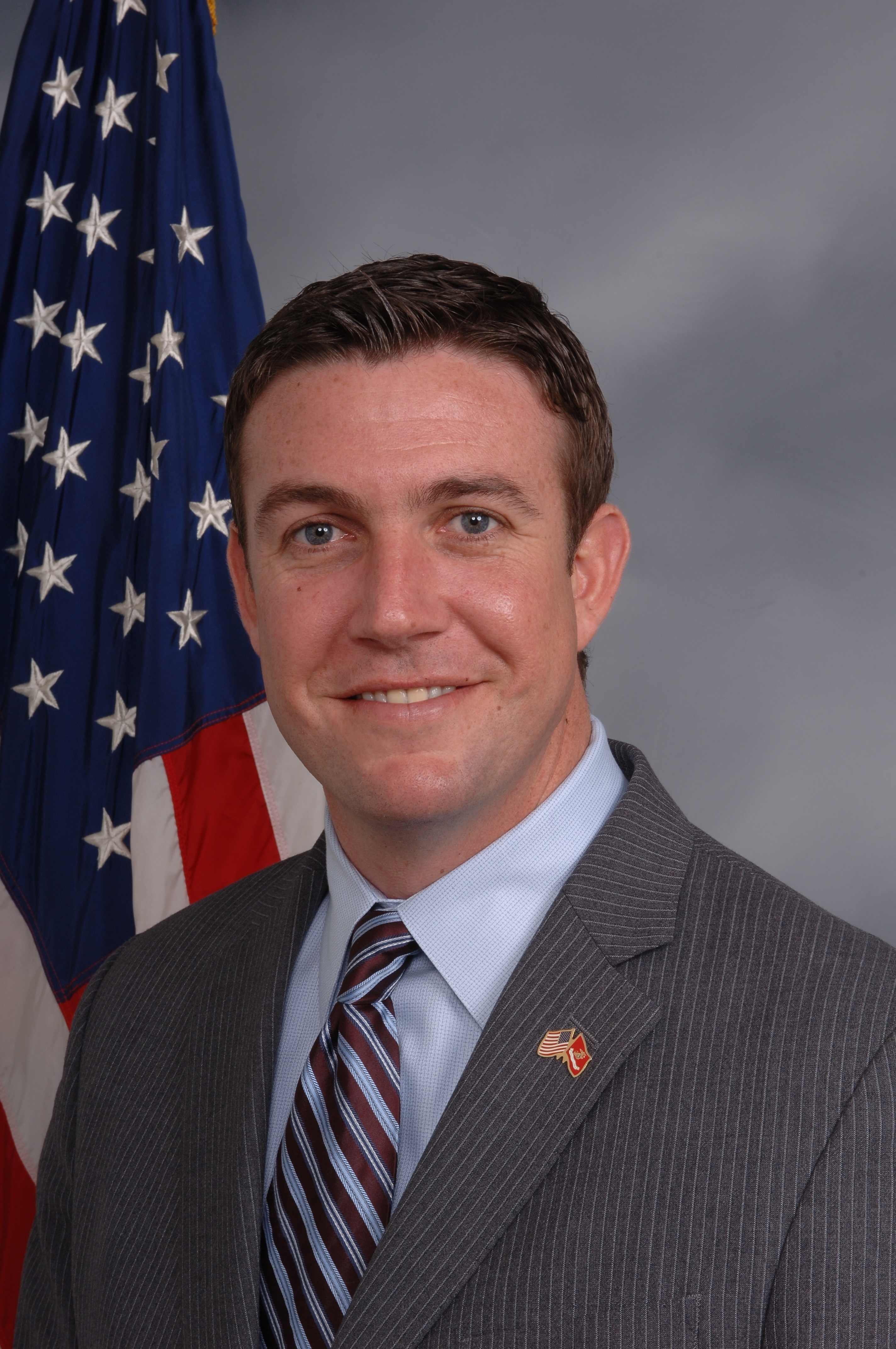 Duncan D. Hunter official photo